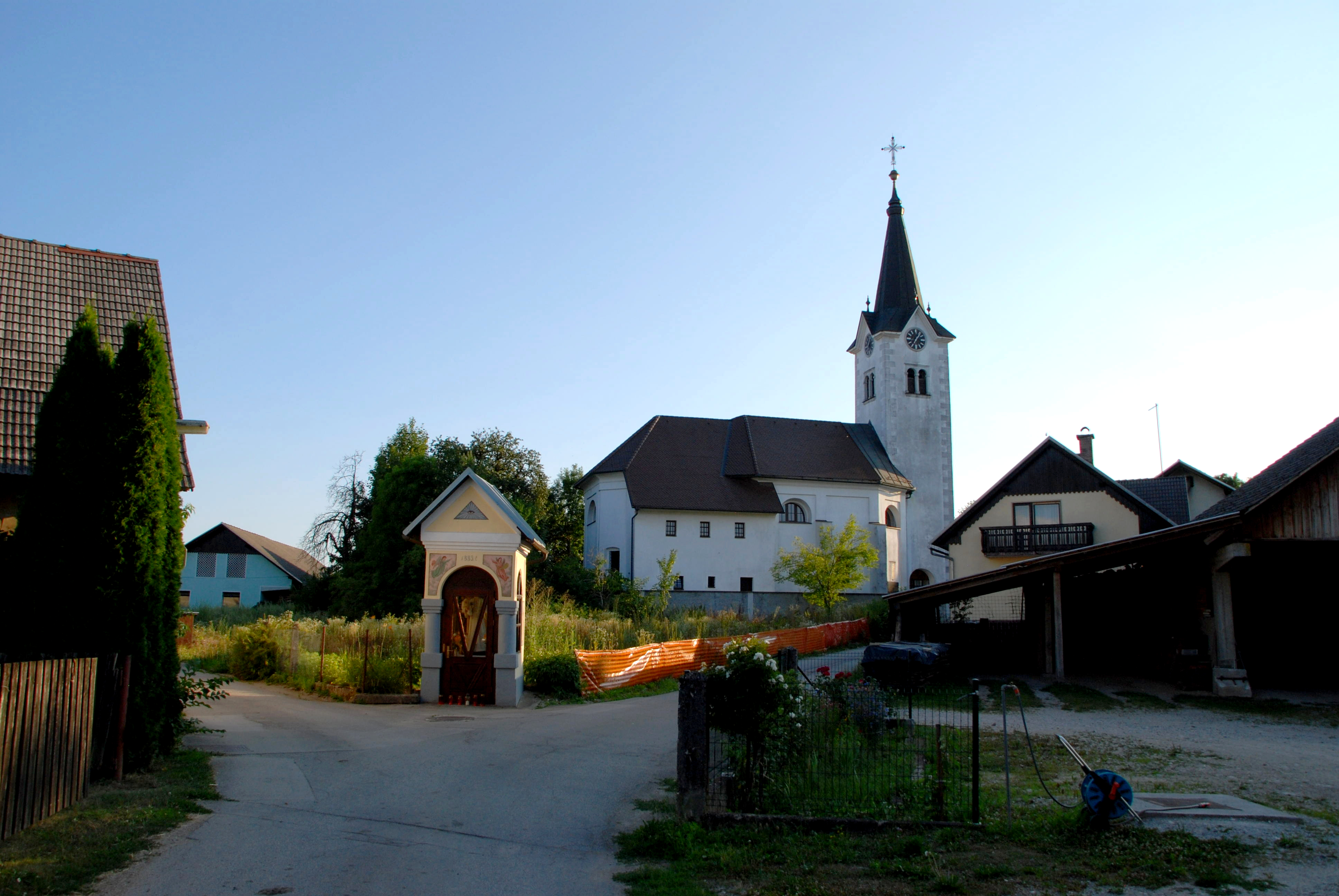 A neo-Gothic chapel (built in the 2nd half of the 19th century) and the Baroque Assumption of Mary Church in Trboje (Municipality of Šenčur).